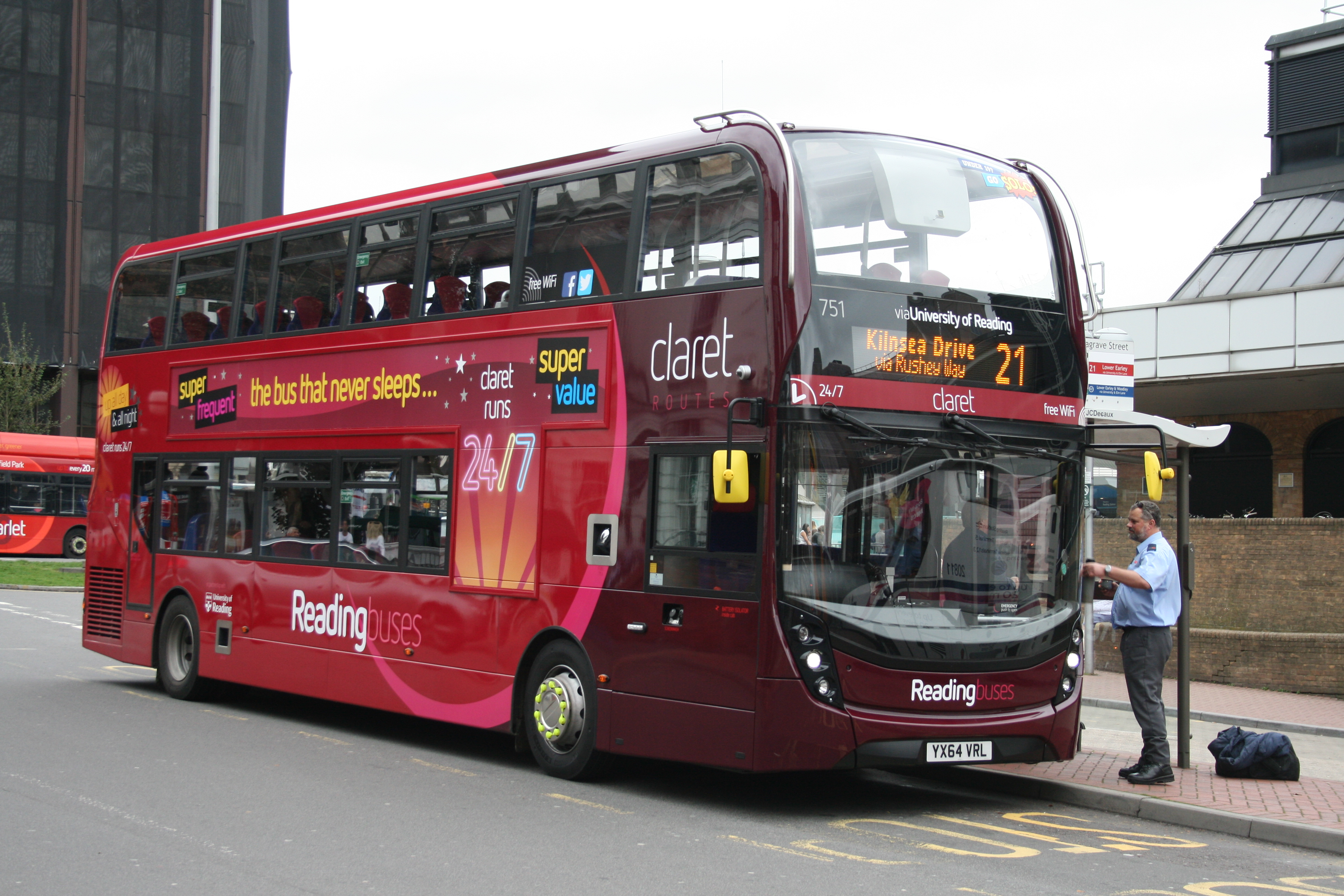 A Reading Transport bus on route Claret 21 outside Reading railway station. The bus is an Alexander Dennis Enviro400 MMC, registration mark YX64 VRL, fleet number 751.